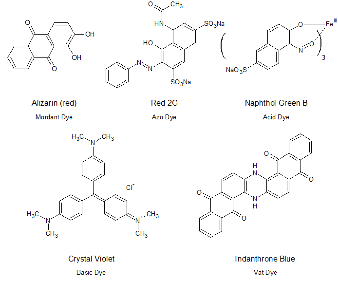 Common Industrial Dyes